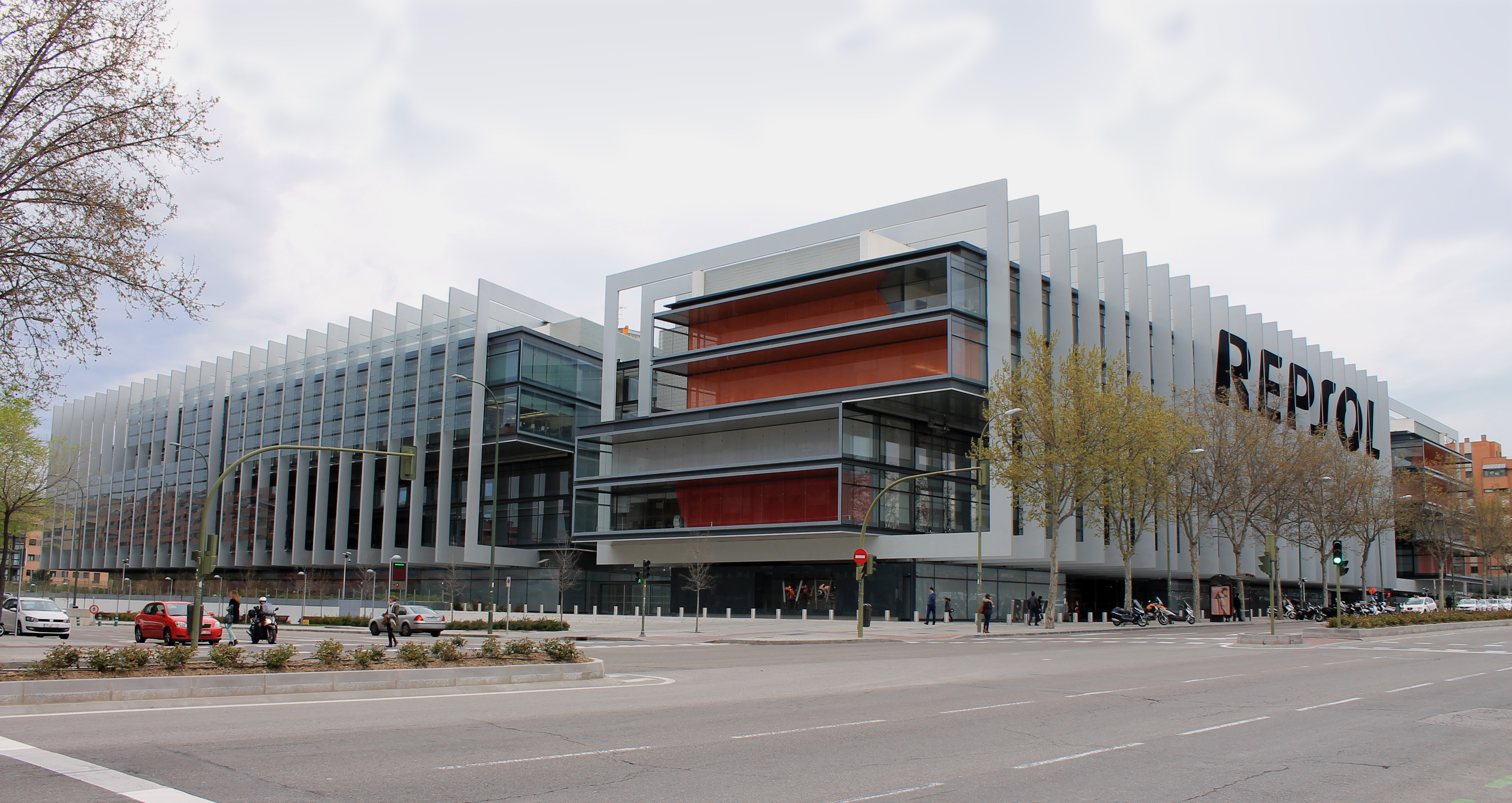 View of Repsol headquarters (Madrid, Spain) from the east angle.